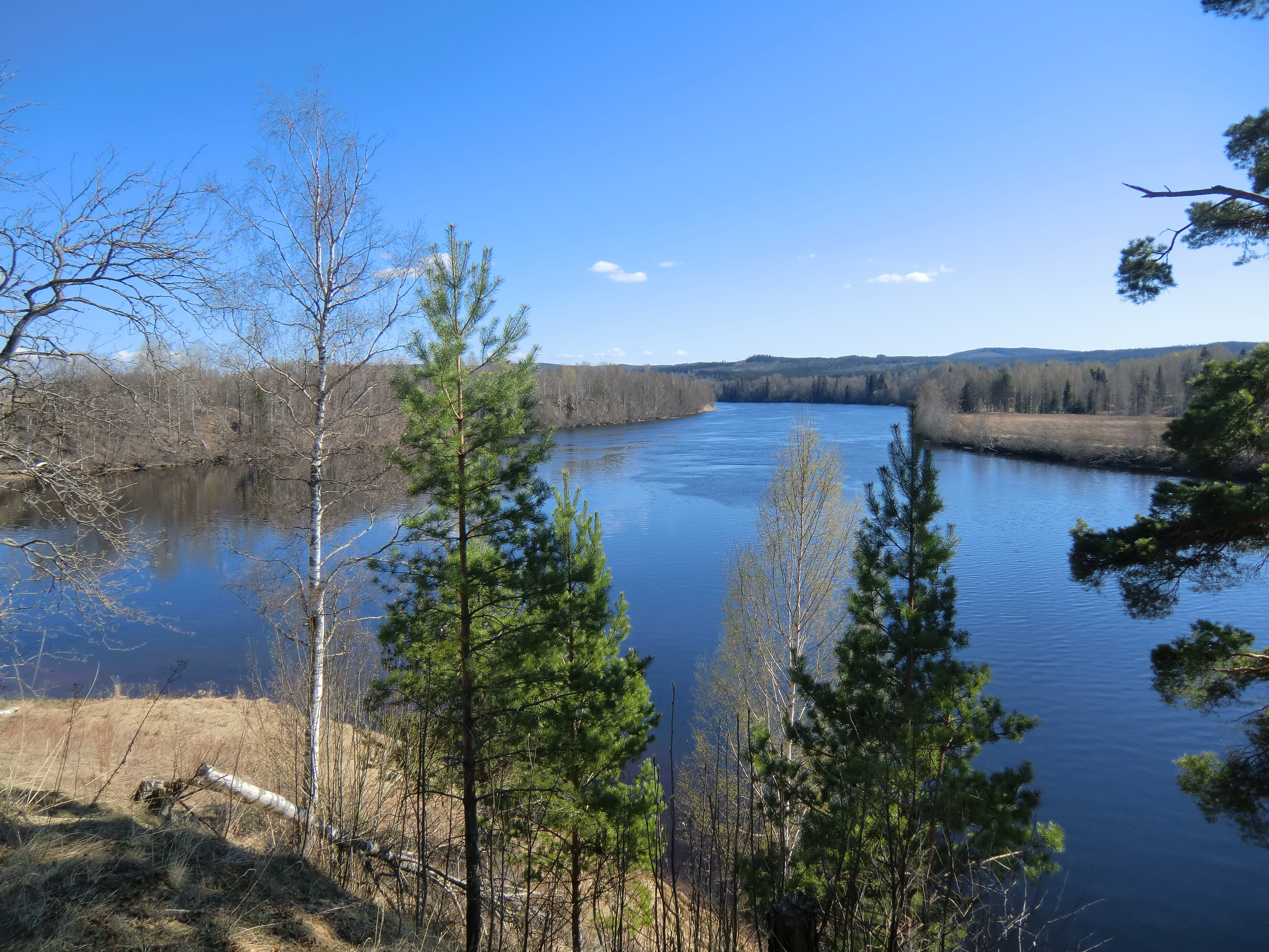 The connection of the rivers Västerdalälven and Österdalälven forming the river Dalälven in Sweden.